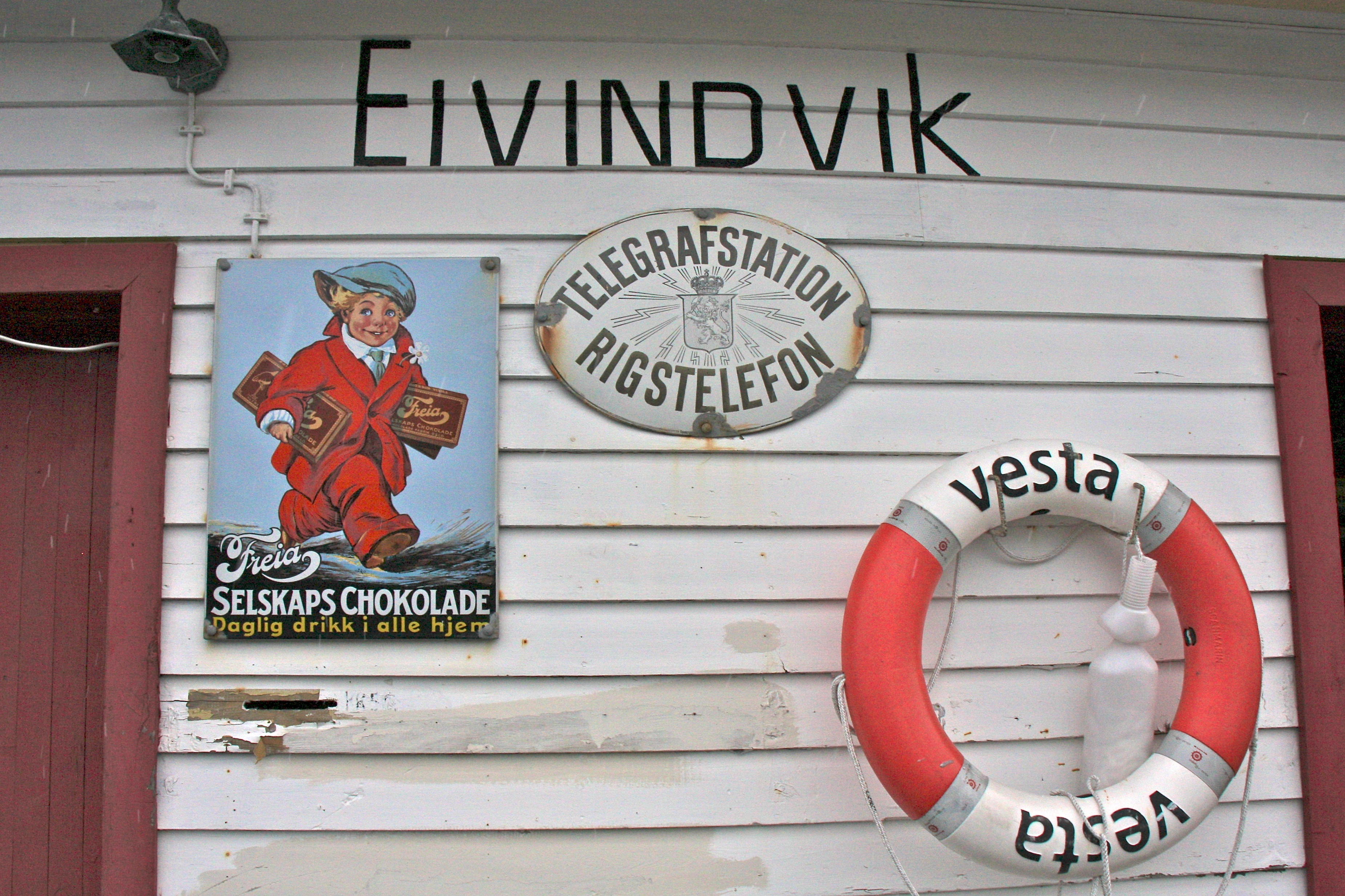 Gulen municipality, Norway.